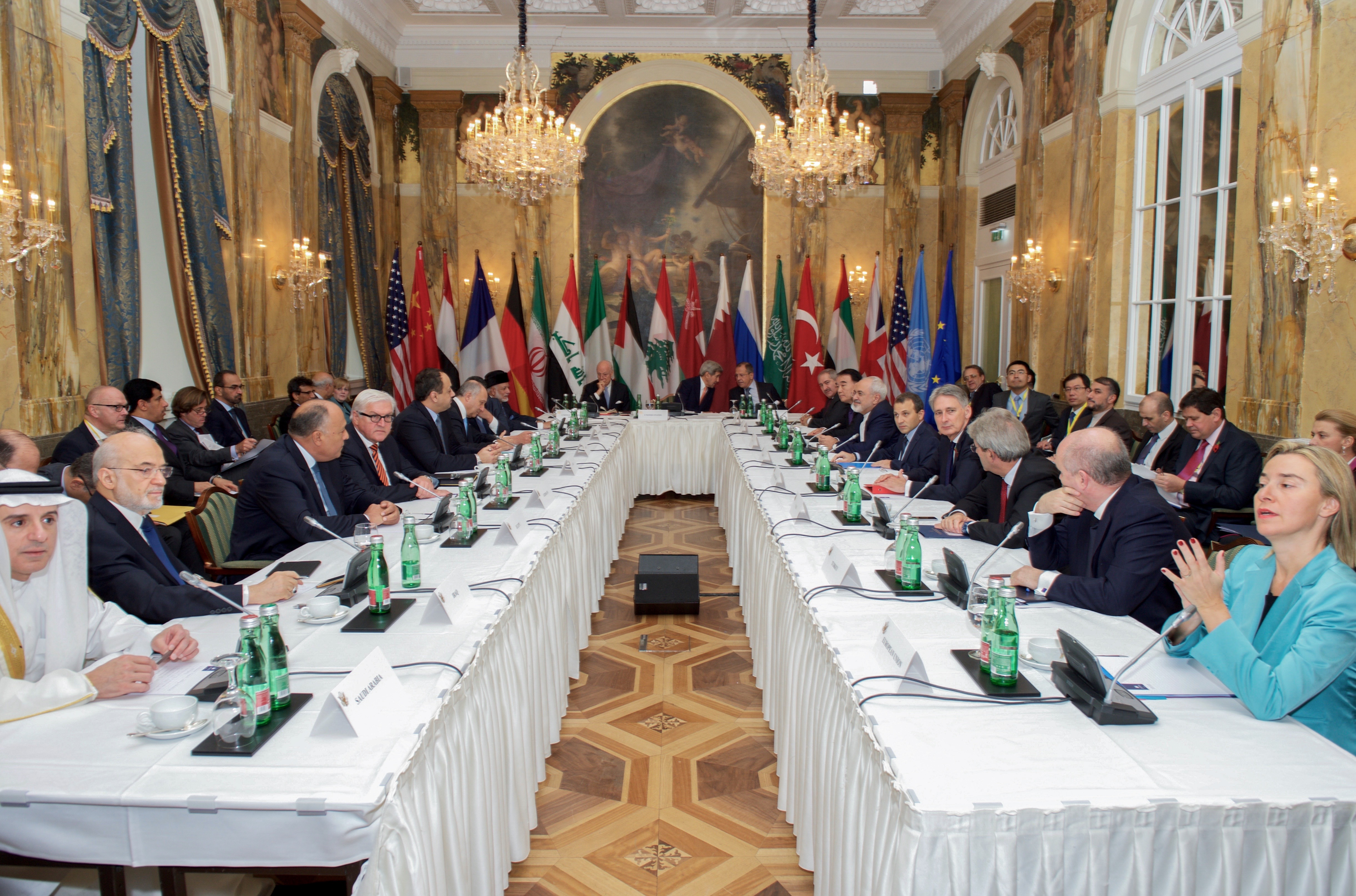 U.S. Secretary of State John Kerry sits with his fellow Foreign Ministers at the Hotel Imperial in Vienna, Austria, on October 30, 2015, prior to a group discussion about ways to stop the fighting in Syria. [State Department photo/ Public Domain]